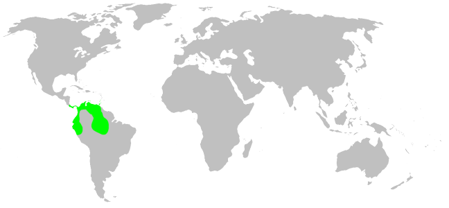 Paratropididae habitat distribution, drawn after Platnick: World Spider Catalog 7.0. This is not a precise rendering of the distribution! If you have better information, please replace this map, or send me the info, so i will redraw it.